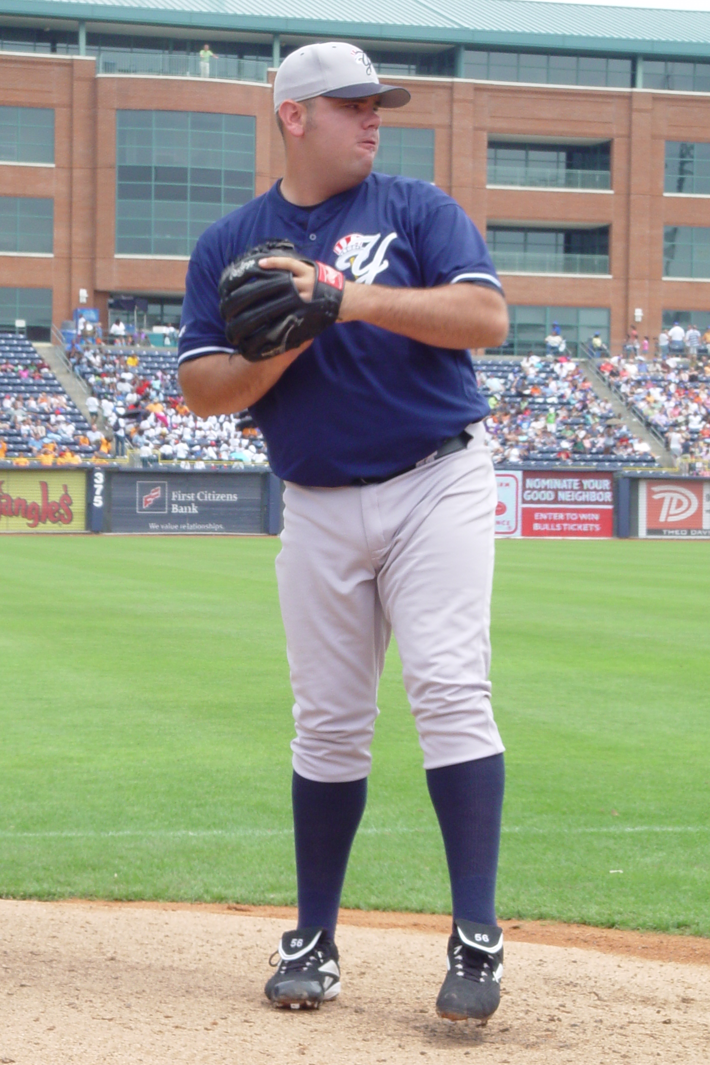 Picture taken by Brad E. Williams (uploader) on June 20, 2007 at Durham Bulls Athletic Park in Durham, North Carolina. 19:24, 15 August 2007 . . Brad E. Williams . . 1,404×2,106 (3.59 MB)